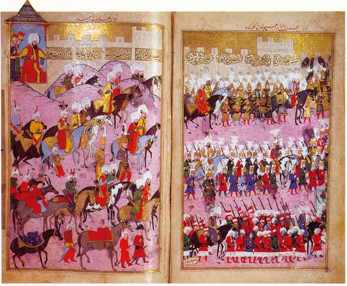 Illustrations of Ottoman soldiers from the Shahin-Shah-nama